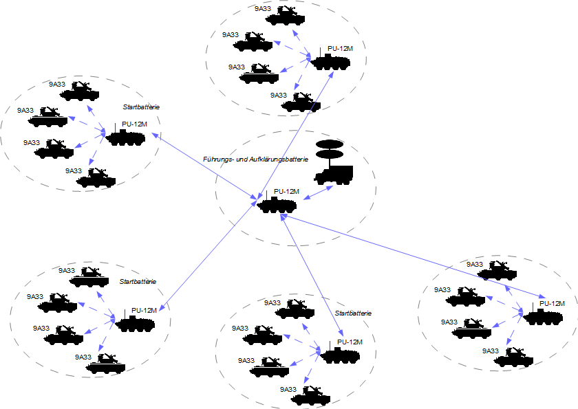 Usage of air defense command vehicle PU-12M in a SA-8 AA regimen